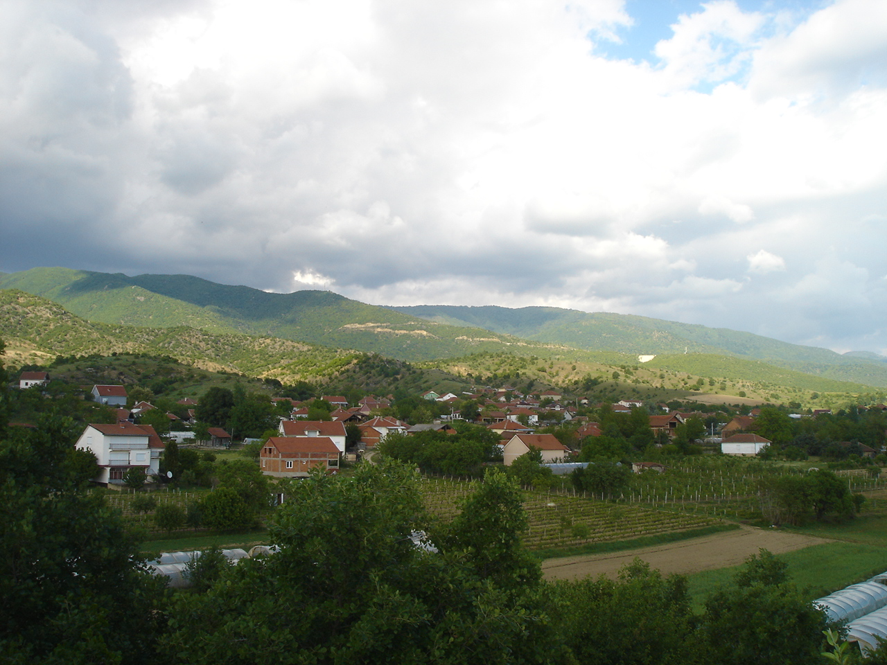 village of Čanaklija, near Strumica, Macedonia